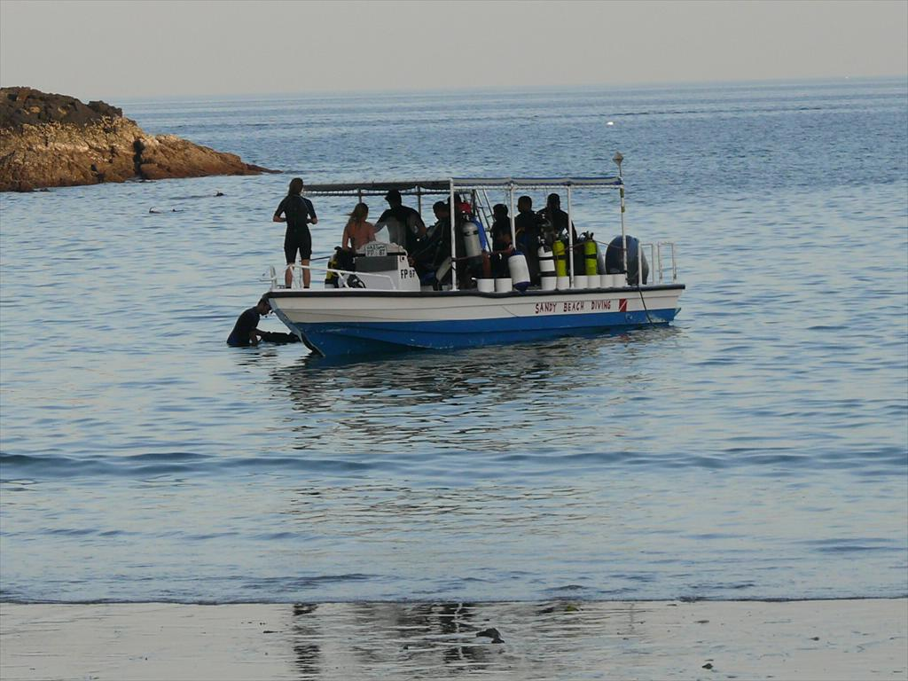 This is a photo a group of scuba divers on a boat off a beach in Fujairah, United Arab Emirates on 27 October 2007.